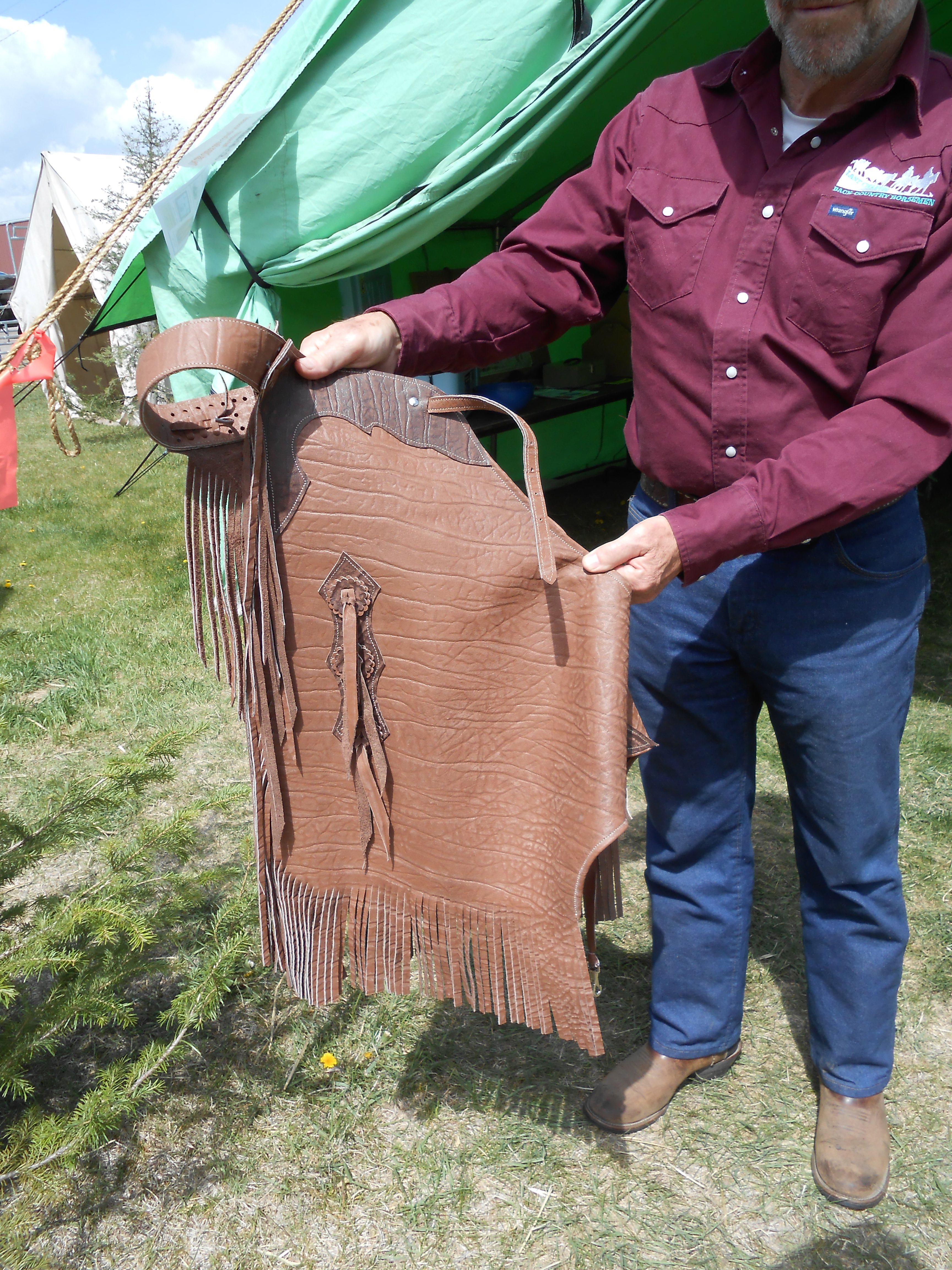 A style of chaps called "chinks" shorter than regular chaps